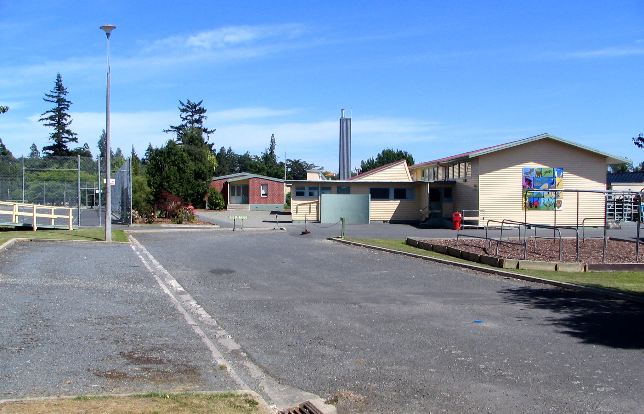 East Otago High School, New Zealand. Own photo